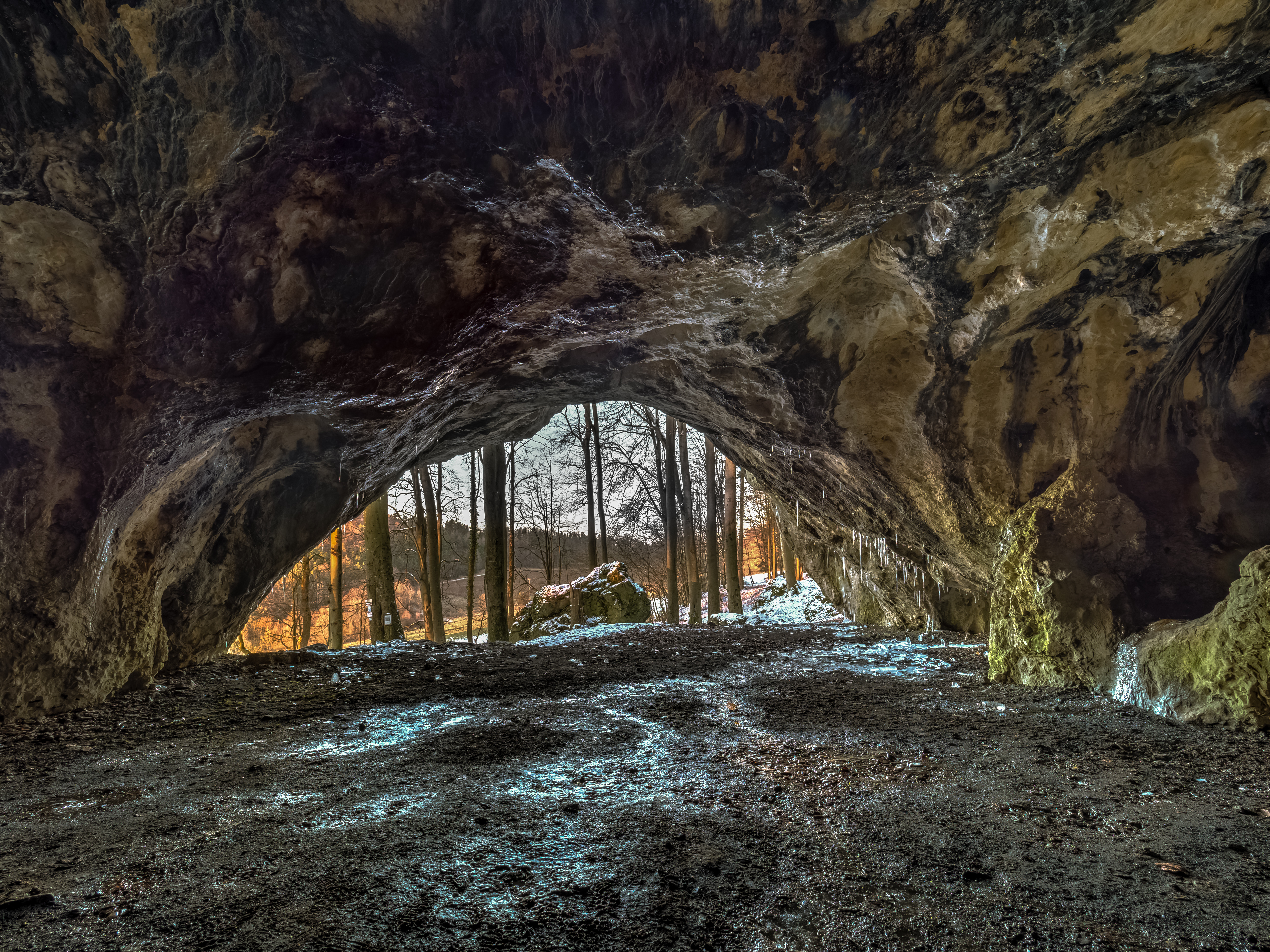 Oswald cave, a natural karst cave near Muggendorf, quarter of Wiesenttal, Landkreis Forchheim, Upper Franconia, Bavaria, Germany. It is located in a geotope in the Franconian Alb.